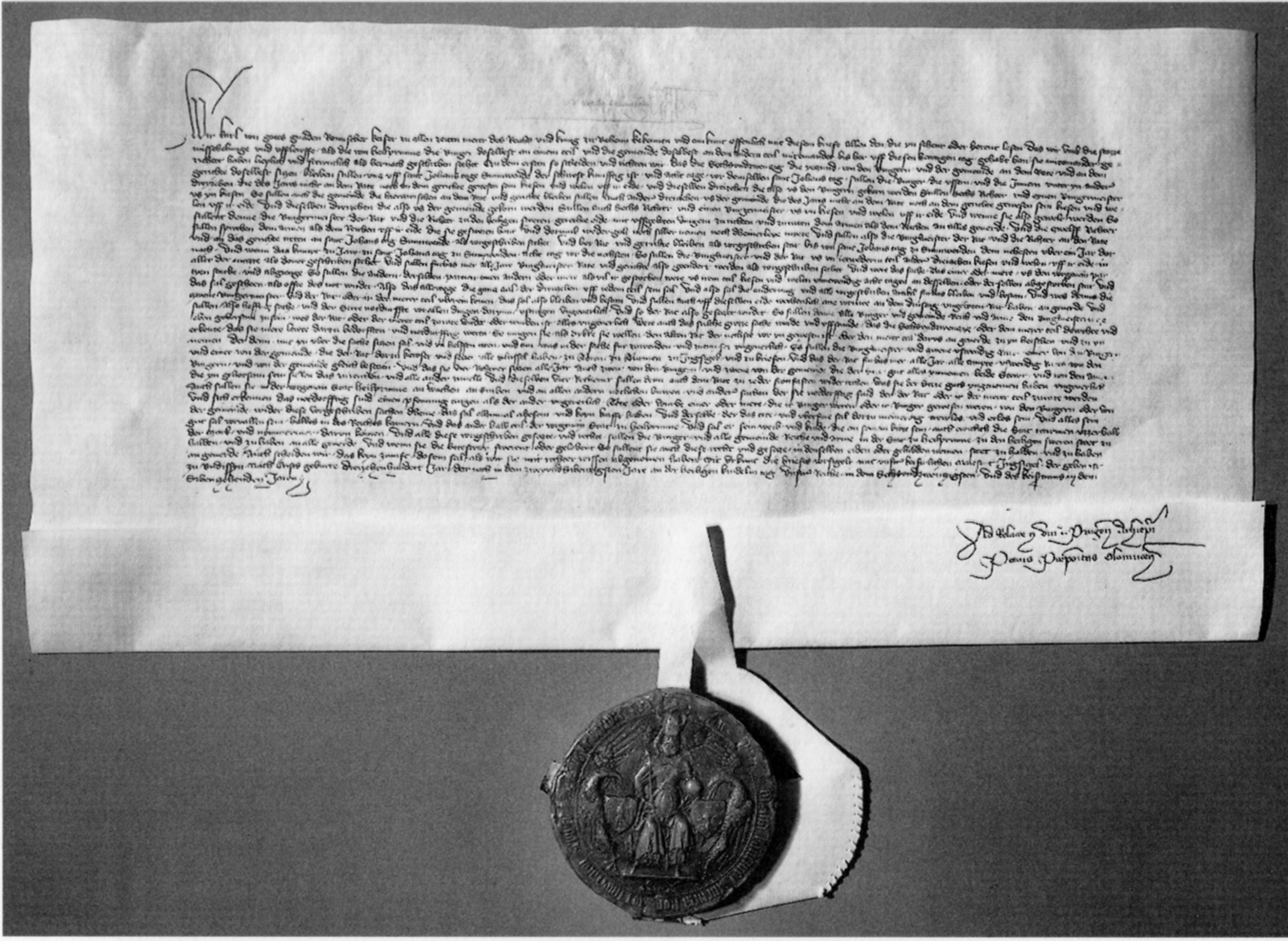 Deed from 1371 containing the constitution of the free city Heilbronn